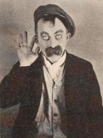 Still from the American comedy short film Home Rule (1920) with Chester Conklin, on page 79 of the October 2, 1920 Exhibitors Herald.